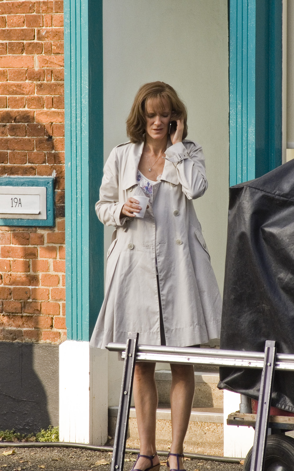 Filming is once again under way in Swaffham for the next series of Kingdom. This must surely be the last bit of filming, as they'll be needing to get started on editing it if it's to start around New Years time.